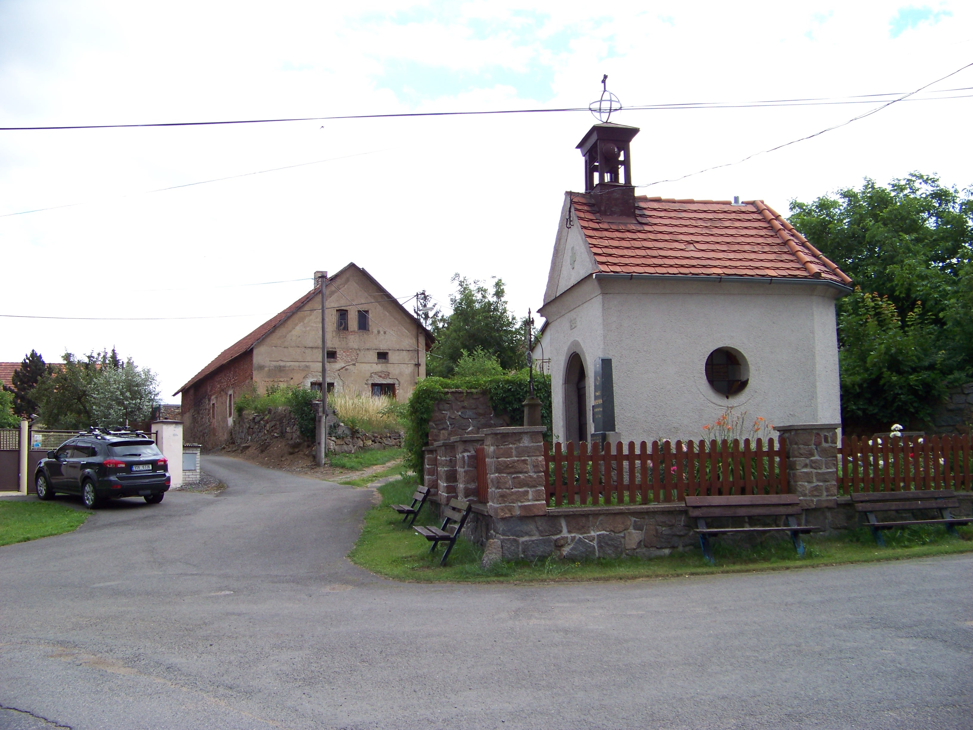 Lešetice, Příbram District, Central Bohemian Region, the Czech Republic. Sacred Heart Chapel and house No. 21. - OpenStreetMap(Info)